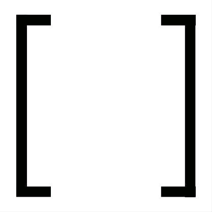 Fiktion Bildmarke